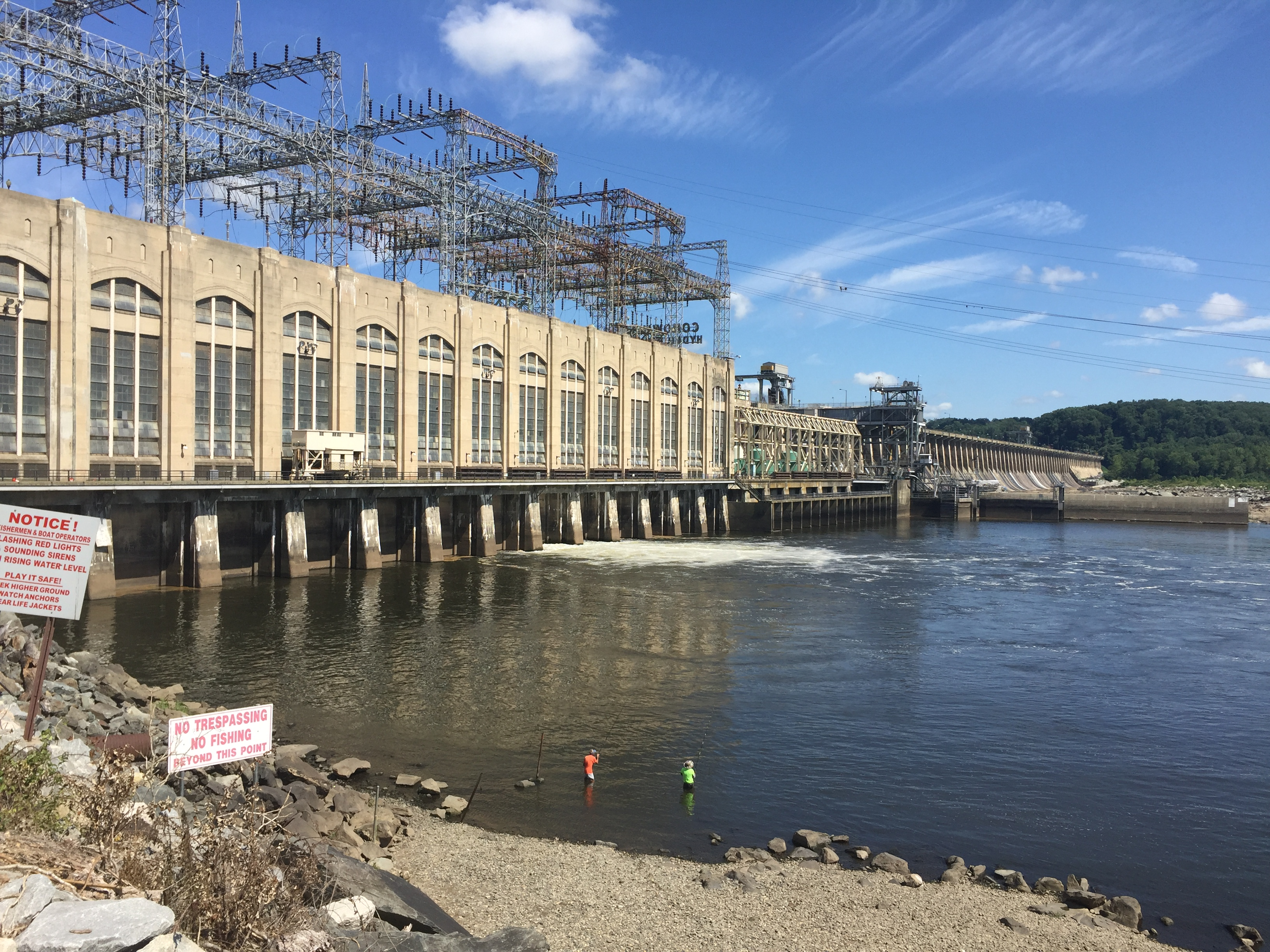 Downstream face of the Conowingo Dam.